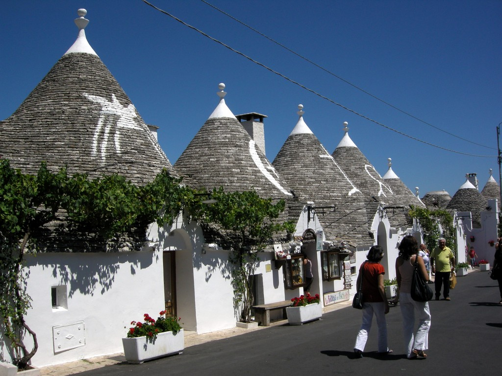 Alberobello main touristic street